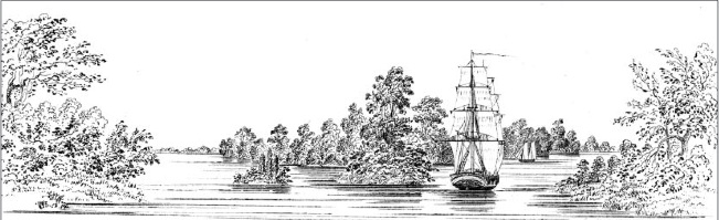 Original caption: "Mark for entering the second section of the Middle Fork of the Sacramento River" Notes: The Sacramento–San Joaquin River Delta area in 1850.